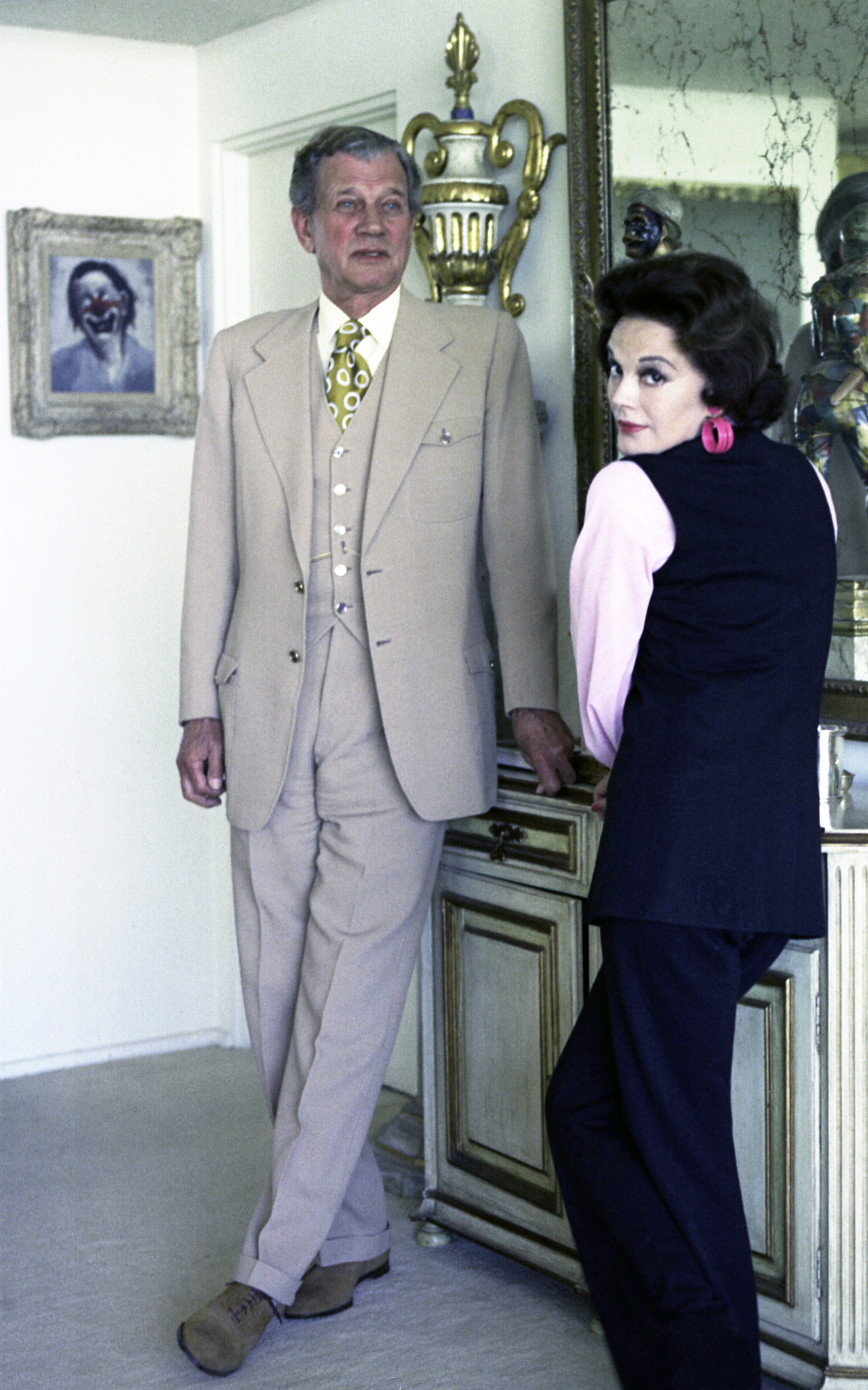 Joseph Cotton & Patricia Medina